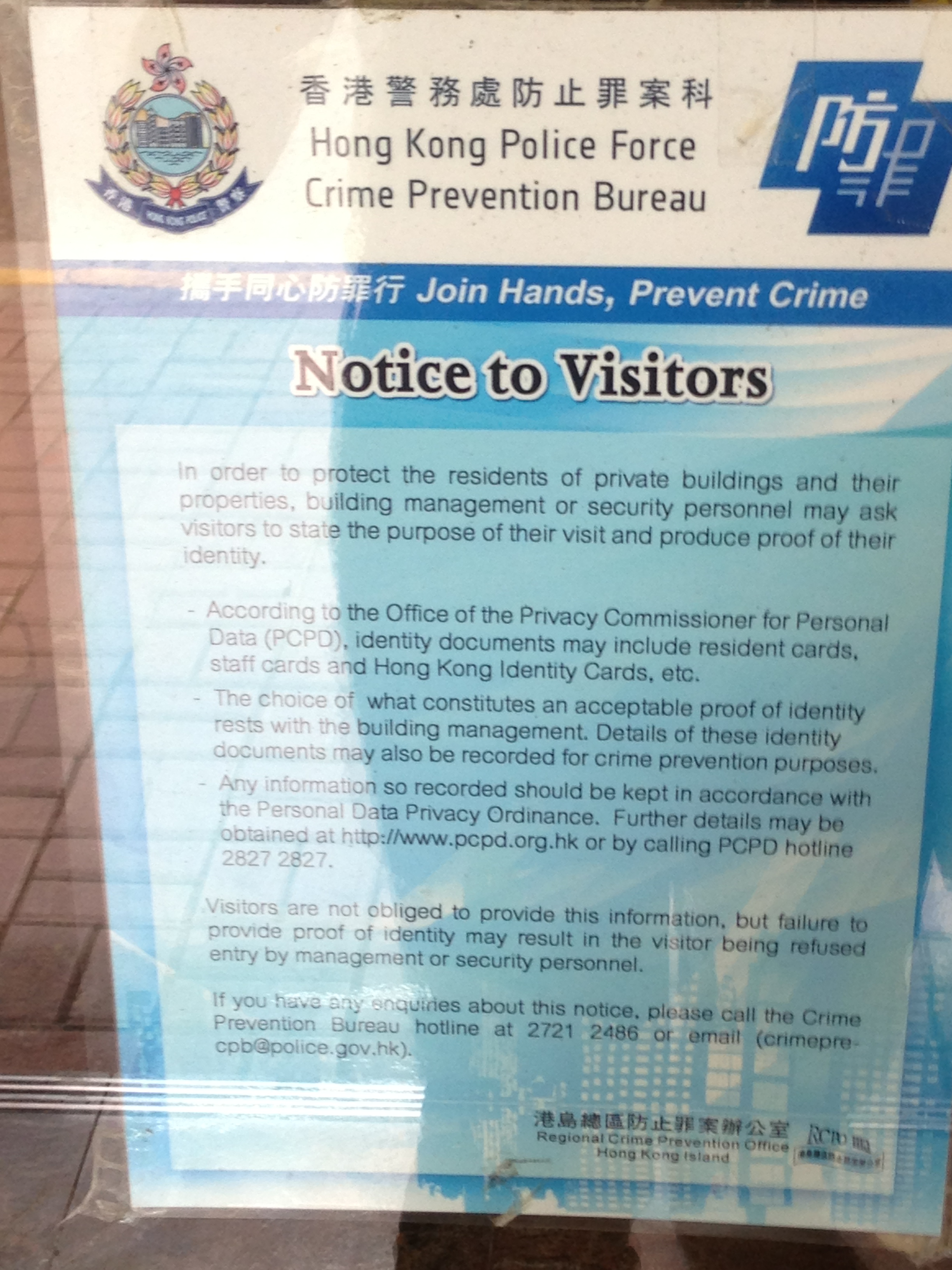 A Hong Kong Police Force Crime Prevention Bureau notice sign in Wan Chai, Hong Kong.